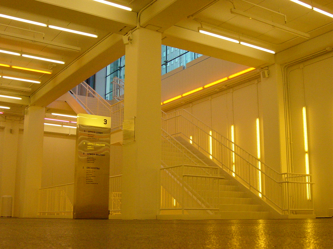 Underground Harris Theater (Chicago)